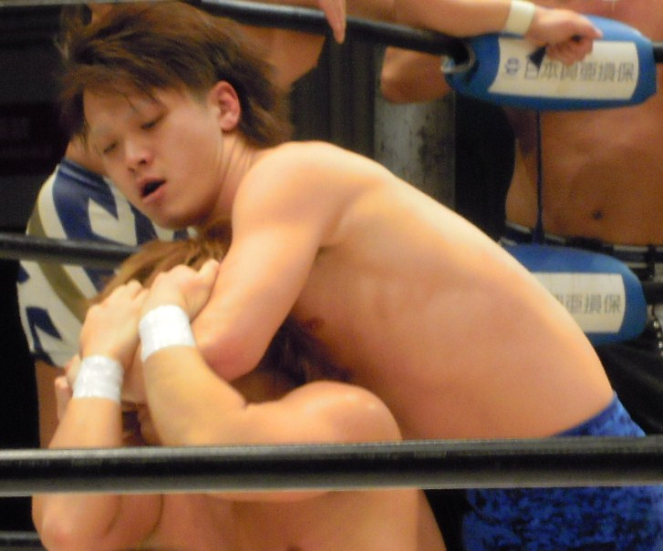 Japanese professional wrestler,Hayato Junior Fujita on Dec 31 2010.